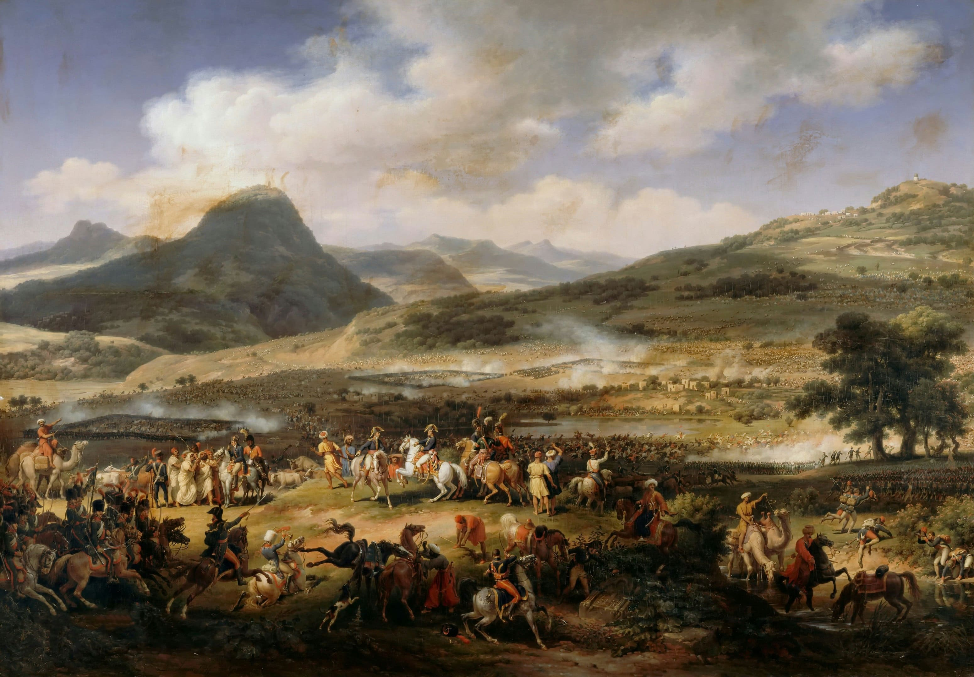 La Bataille du mont Tabor, en Syrie, le 27 germinal an VI by Louis François Lejeune, Salon de 1804 and 1808.